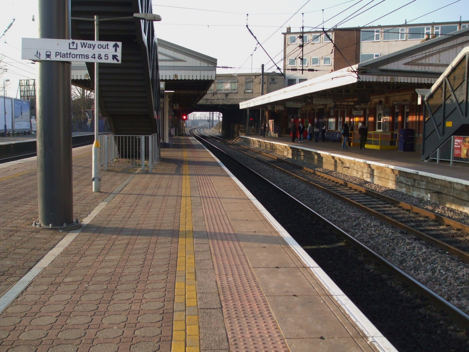 Hayes & Harlington station slow platforms looking west